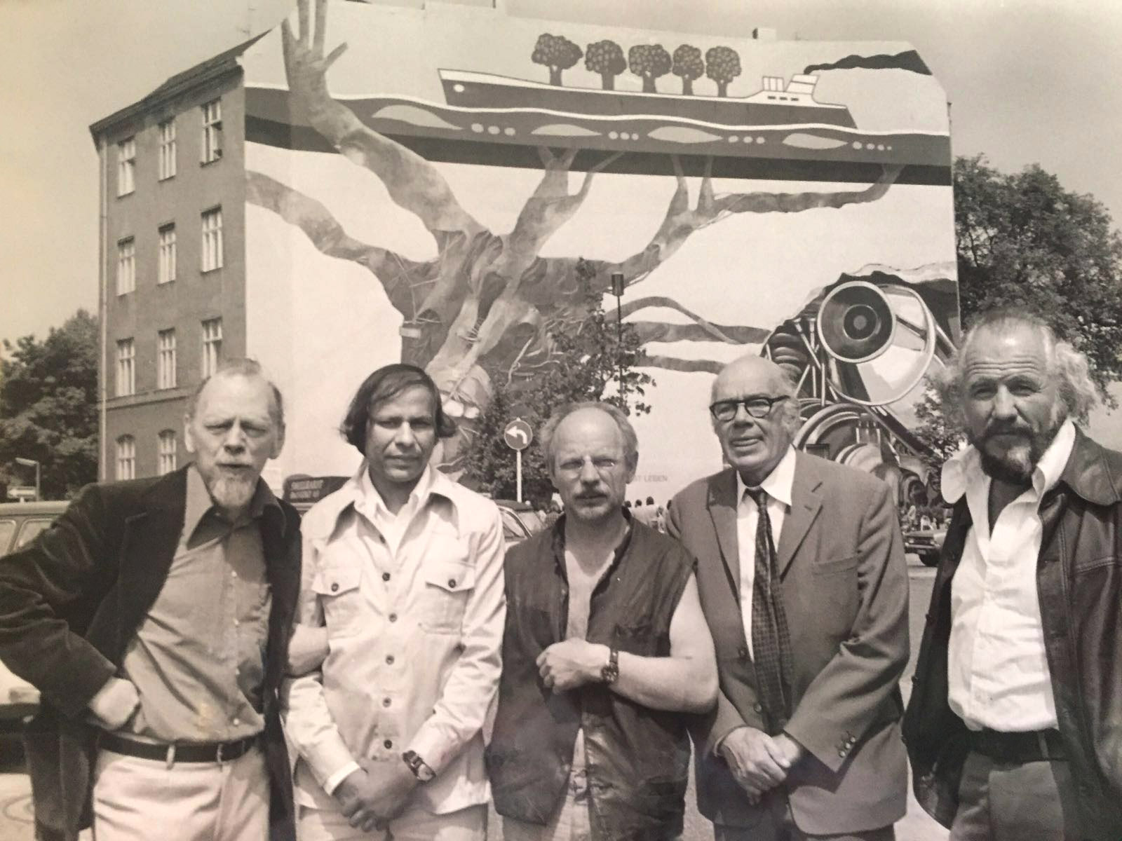 Photography at S Tiergarten